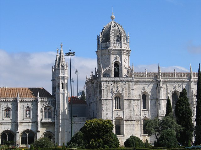 Monastery of Gerónimos. Lisbon, Portugal.